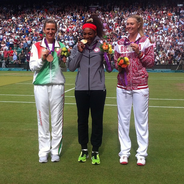 Left to right: Victoria Azarenka, Serena Williams and Maria Sharapova at the 2012 Summer Olympics.